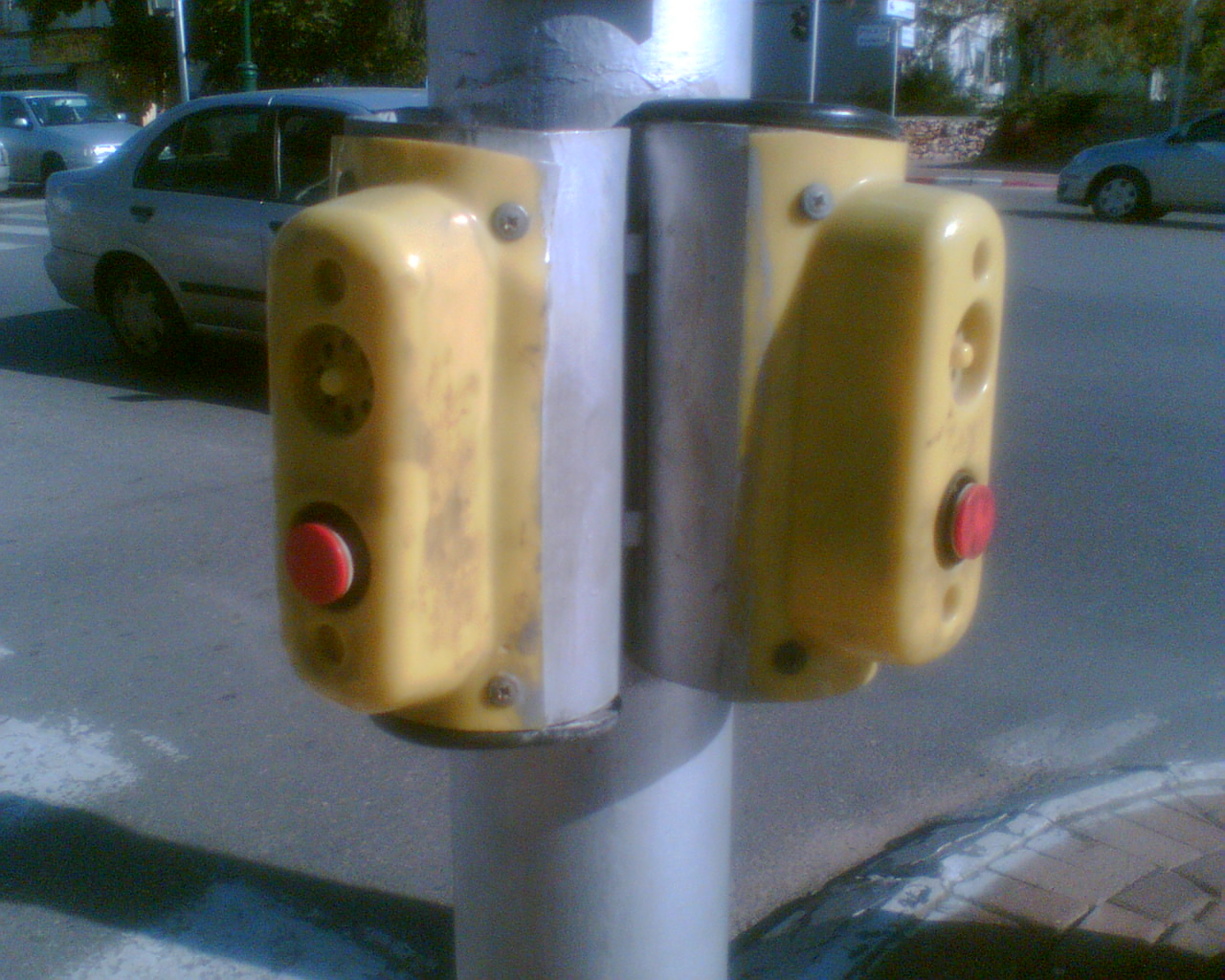 Traffic light aid for the blind, Herzliya, Israel